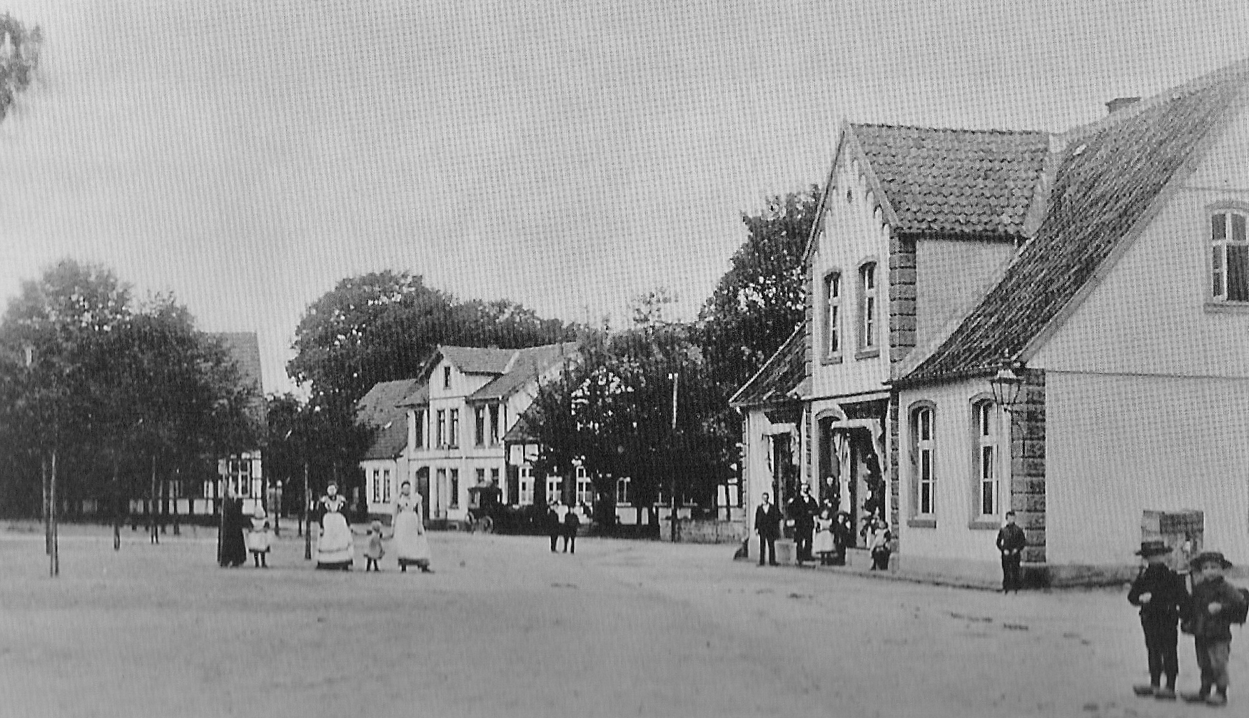 Market square of Mettingen, Germany, around 1895/1900.